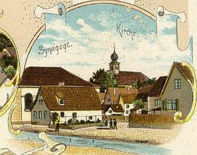 Ausschnitt einer Ansichtskarte (um 1905) mit der Synagoge in Baiertal im Rhein-Neckar-Kreis (Baden-Württemberg). Erbaut um 1804 und 1940 abgebrochen.